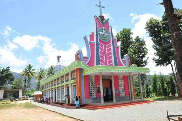 Pic By Alan Sebastian Kunnumpurath